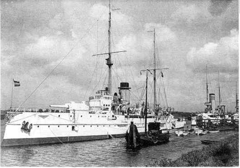 Dutch coastal defence ship Jacob van Heemskerck